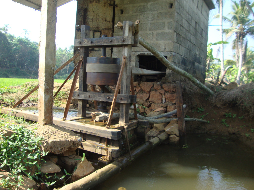 The 'Petti Para' system used for irrigation in paddy fields of kerala Unknown